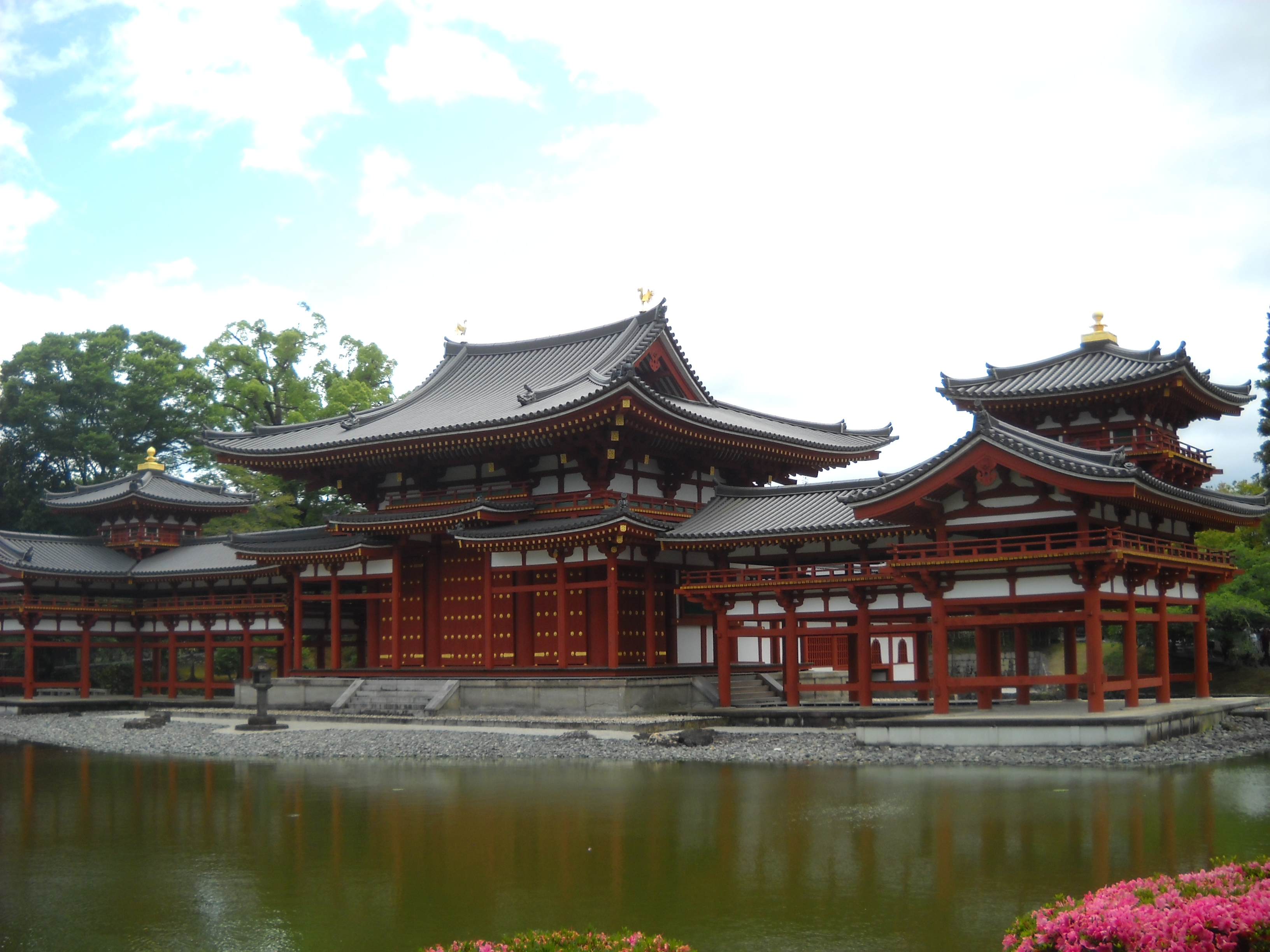 Byōdō-in Hōōdō (Phoenix Hall of Byodoin)